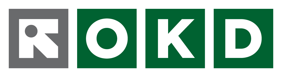 logo of OKD